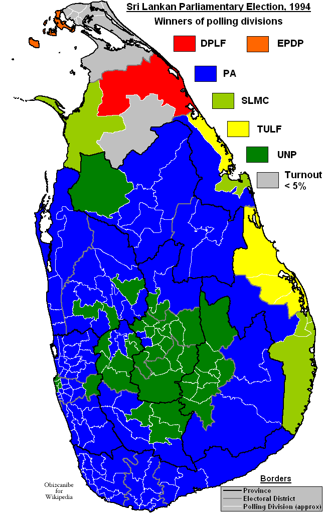 Map showing winners of electoral districts in the Sri Lankan parliamentary election of 1994.